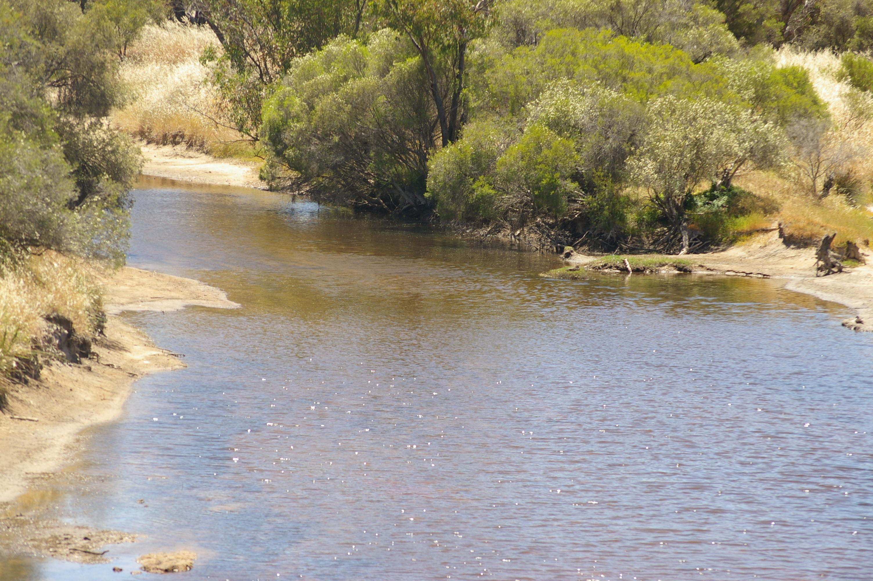 Taken on the Avondale Agricultural Reasearch Station Dale River on the western side of Avondale, Photo was taken near the end of spring and the water level had already reached its peak for 2007 and is at this point evarpouating to its summer low point.